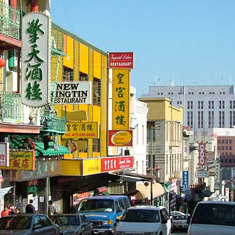 Chinatown